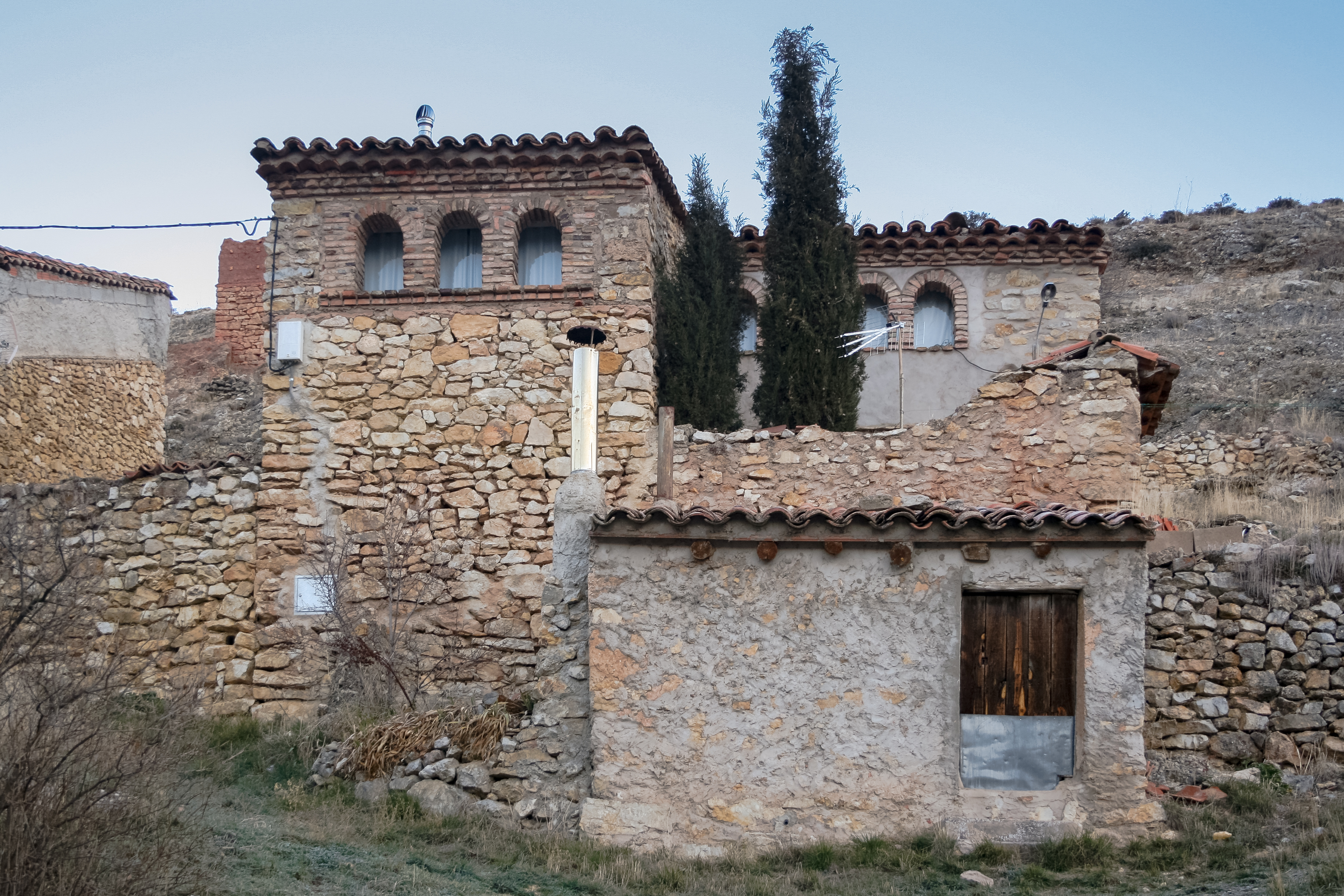 House in Bijuesca, Spain